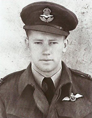 Flight Lieutenant Ian Smith of the Royal Air Force, pictured in either 1942 or 1943, during his service in the Second World War. Smith was later Prime Minister of Rhodesia between 1964 and 1979.